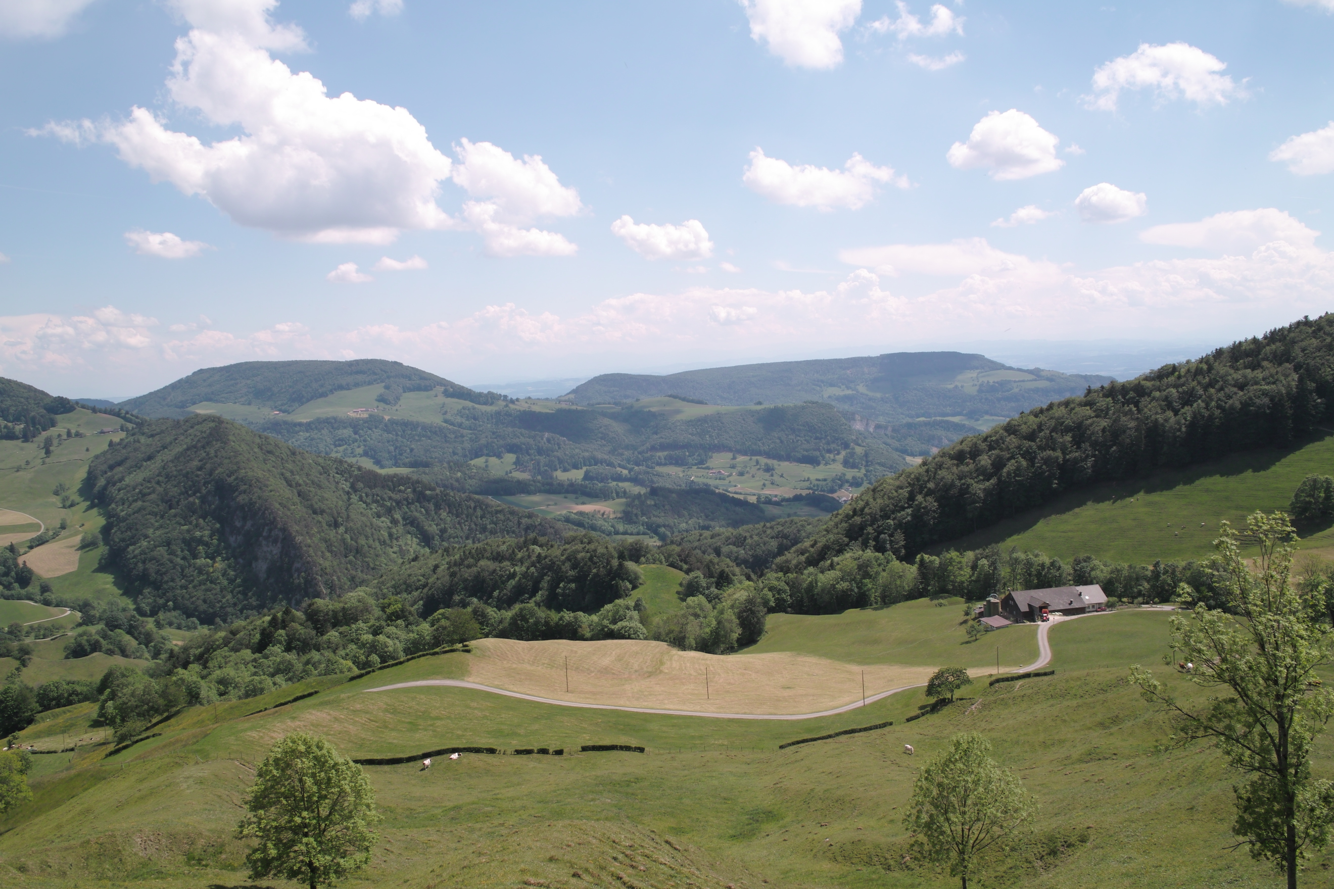 Mümliswil-Ramiswil, canton of Solothurn, Switzerland. View towards the "Wechten" area seen from the mountain inn "Obere Wechten".